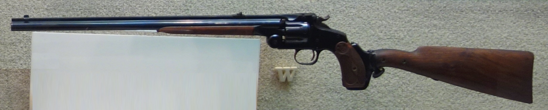 Smith & Wesson Model 1871 with extended stock, United States. Manufactured by Smith and Wesson, Springfield, Mass.